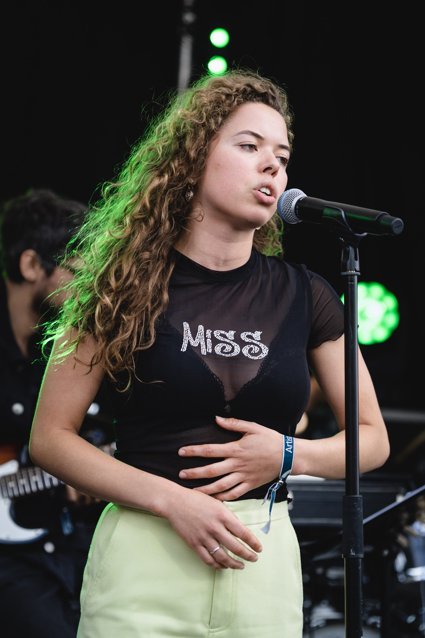 Turning Tides Festival: Nilufer Yanya and Elif Yama